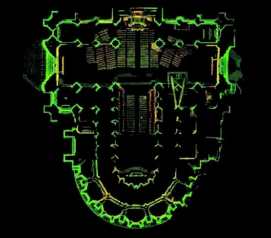 Located in northern France in the city of Beauvais, the Cathedral of Beauvais is approximately 100 miles from the English Channel--close enough for the gale-force winds to threaten the stability of its flying buttresses. The church soars to 47m (154ft) above its floor in the choir vaults, and despite its lack of a tower and nave it is still one of the most daring feats in Gothic architecture.